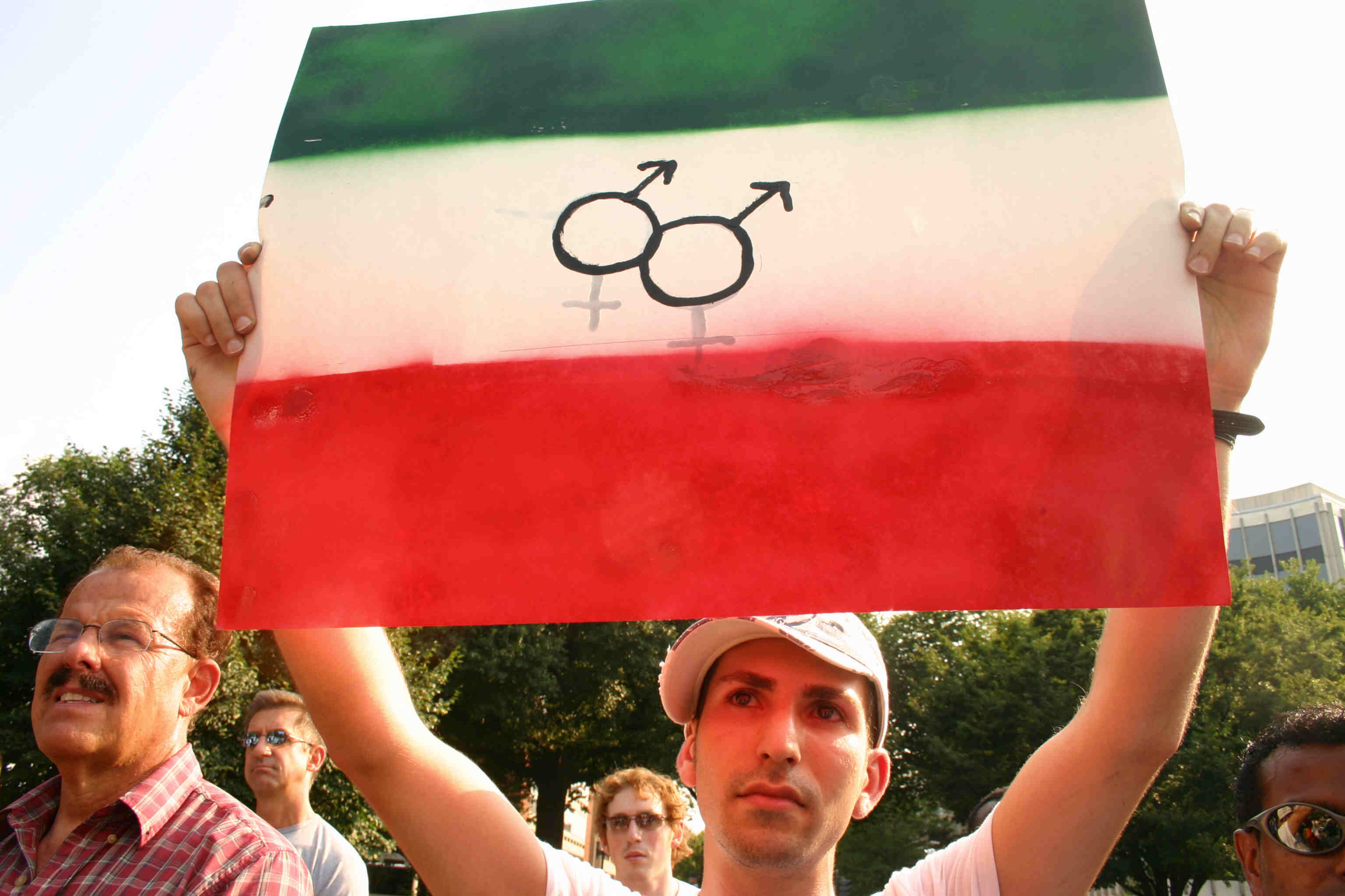 19 July Global Day of Protest . Iran: Stop Killing Gays . Rally & Candle Vigil . . Dupont Circle . Washington DC . 19 July 2006 . Elvert Xaiver Barnes Protest Photography